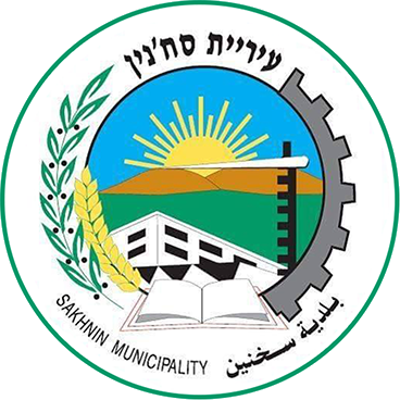 Coat of arms of Sakhnin